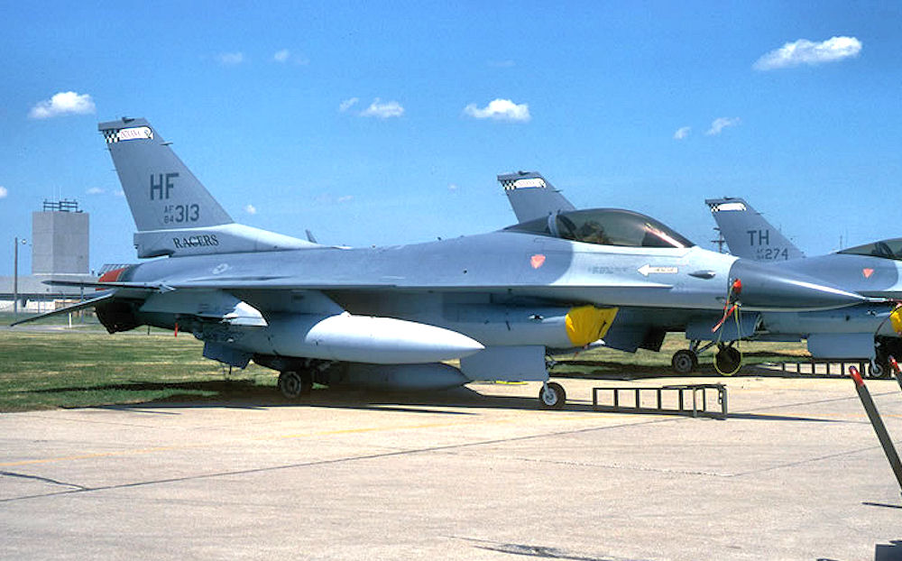 113th Tactical Fighter Squadron - General Dynamics F-16C Block 25E Fighting Falcon 84-1313